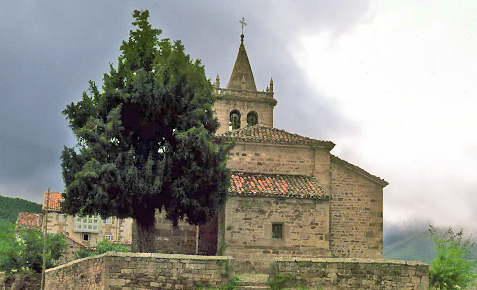 Church of La Lomba, with its old yew [Taxus baccata]. Hermandad de Campóo de Suso, Cantabria, Spain